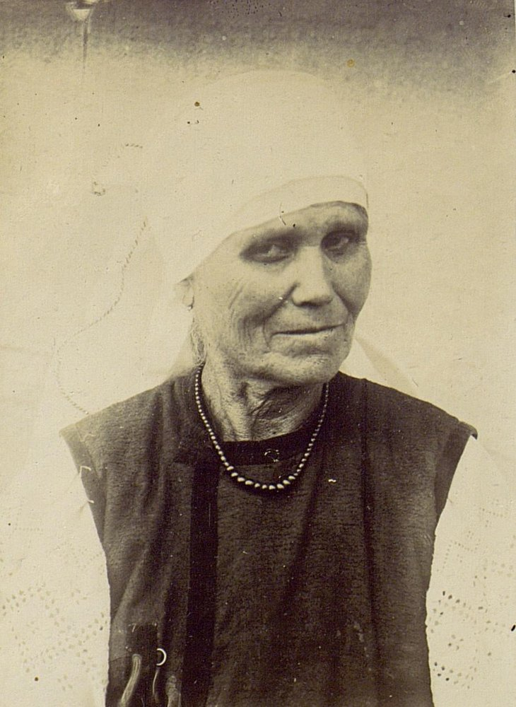 The old woman from Poltava region, Ukraine. Photo by Samuil Dudin. 1894